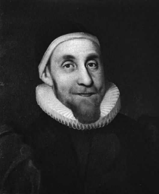 Robert Burton, English scholar and vicar at Oxford University